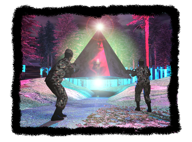 own creation